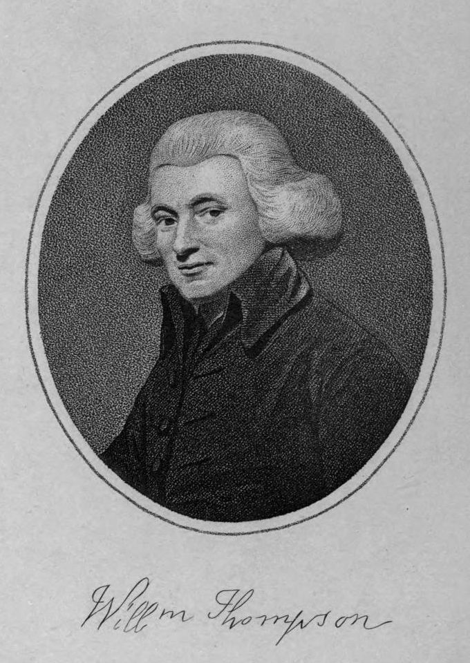 Etching and signature of William Thompson (1733-1799)